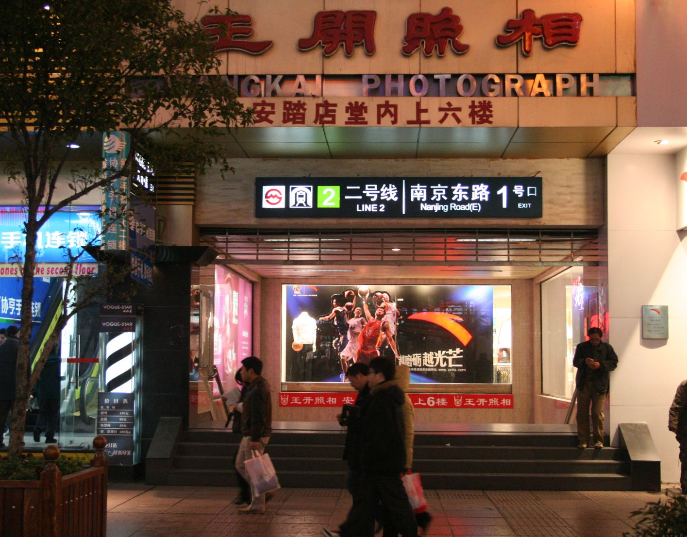 Nanjing Road (E) Exit 1